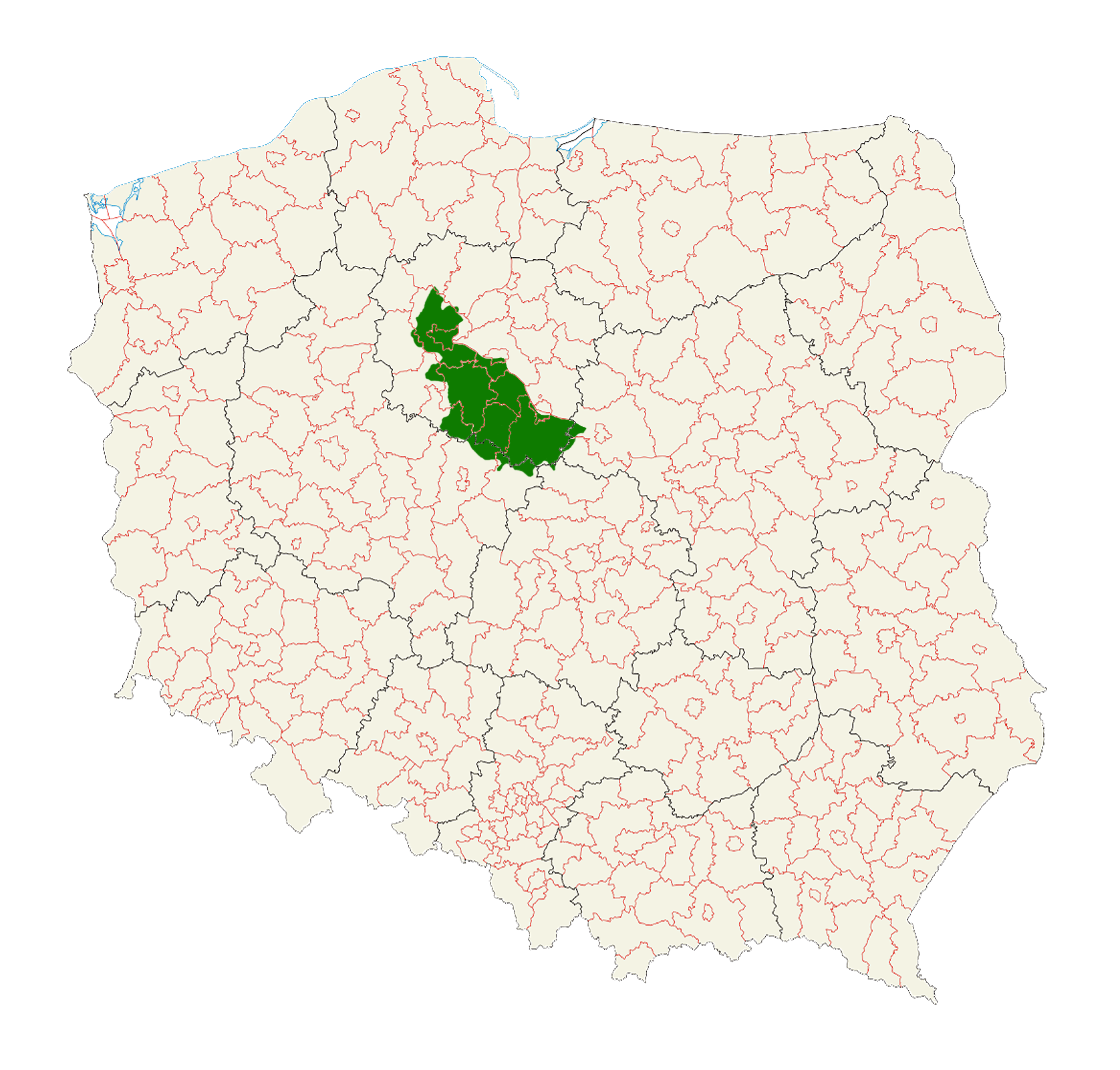 Location of Kujawia region in Poland.